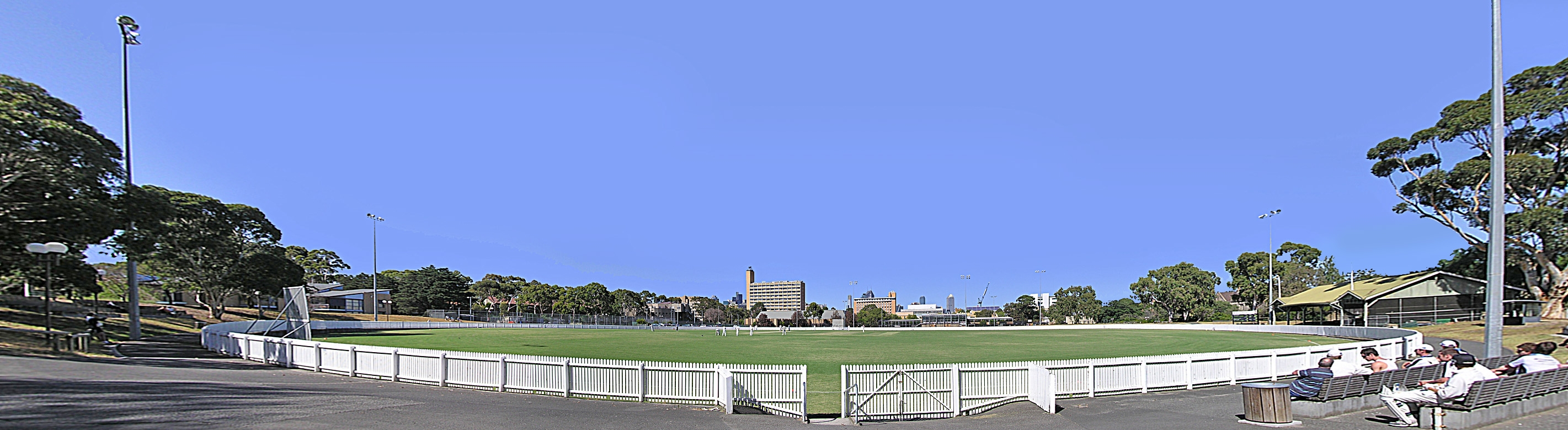 The ground of Melbourne University cricket club (founded in 1856) in Parkville